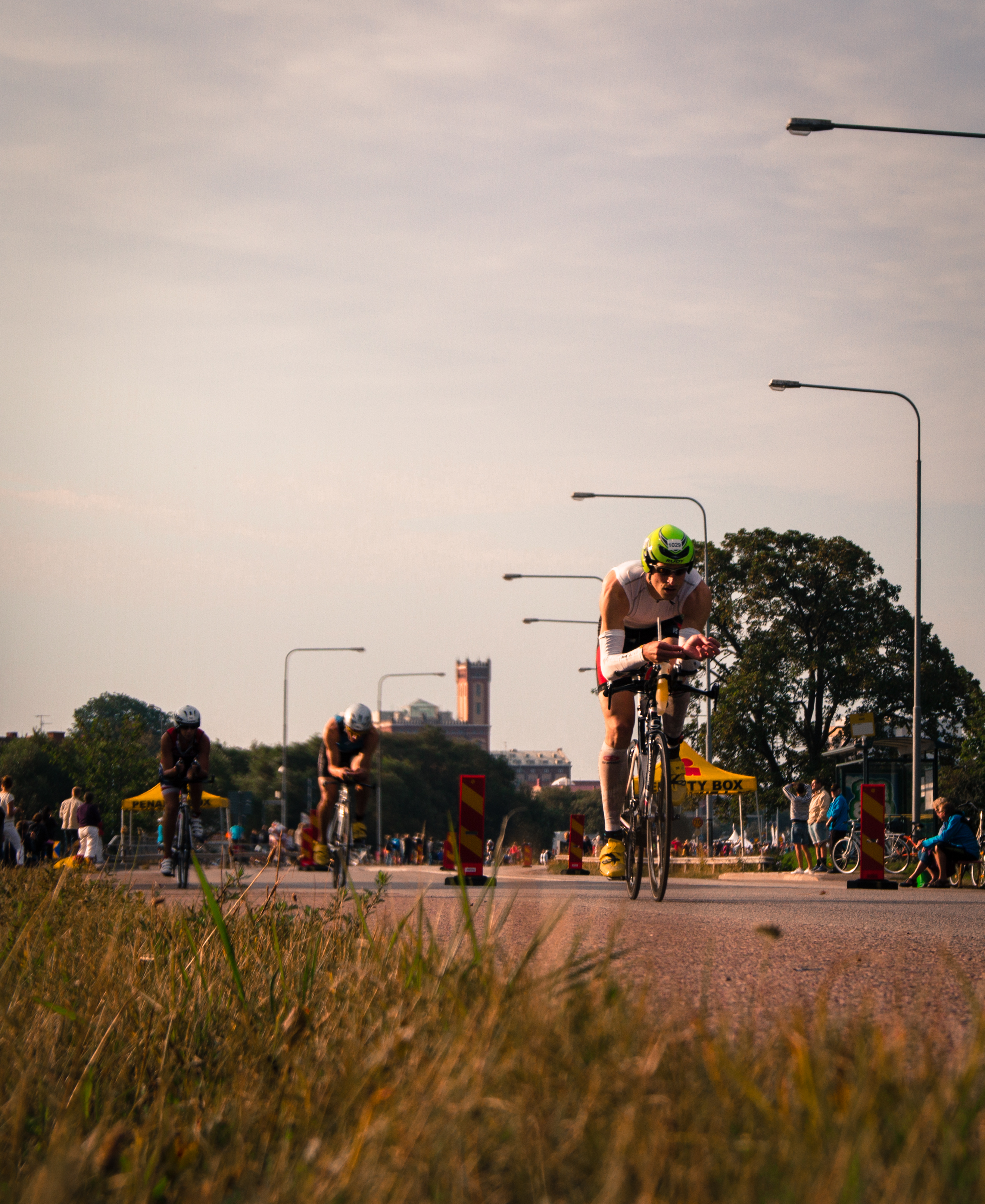 Bike course Ironman Kalmar Sweden 2013